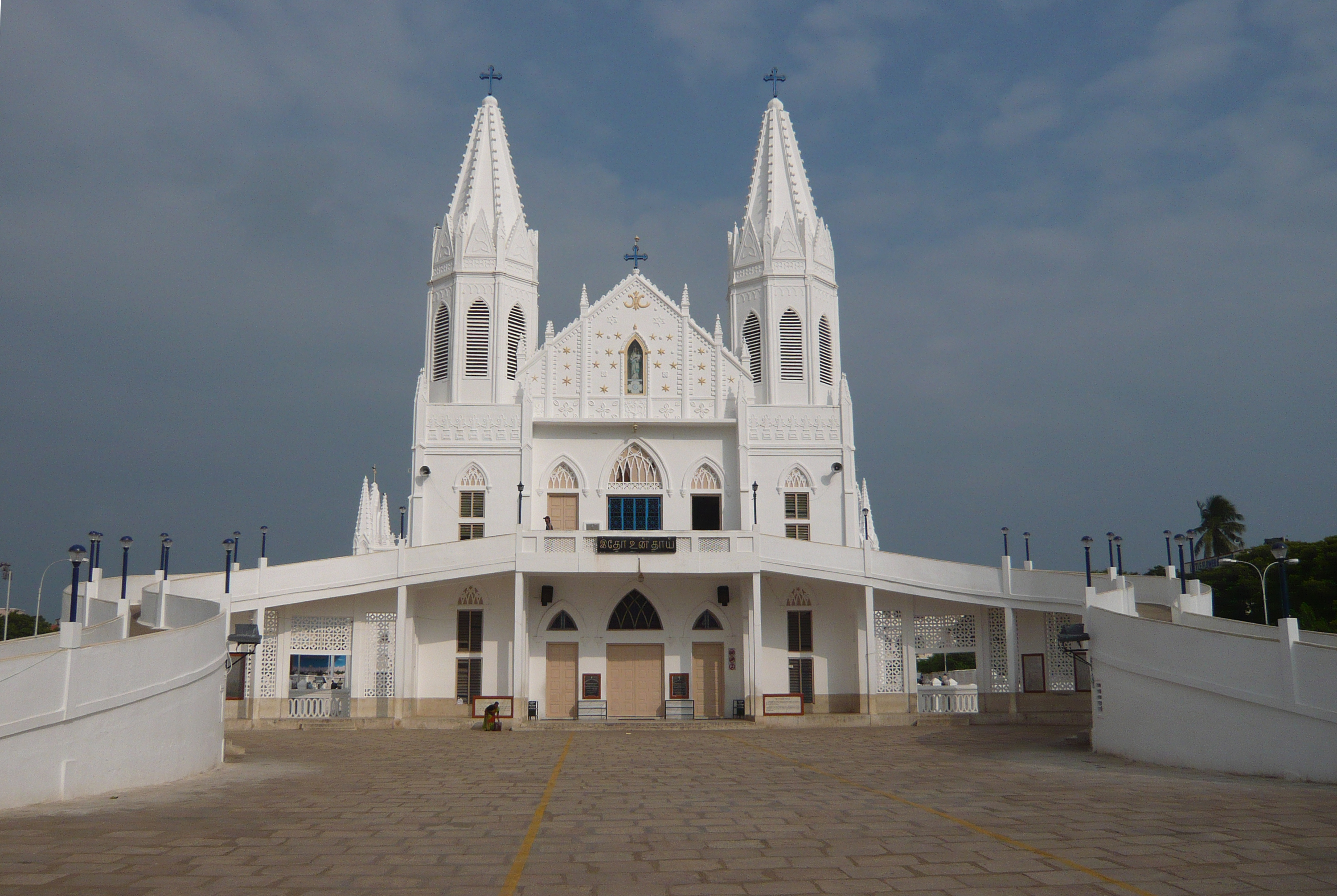 Veilankanni Church - Basilica Extension, Tamil Nadu. This photo was taken by me using a wide angle lense and you are welcome to use this image for any development purpose